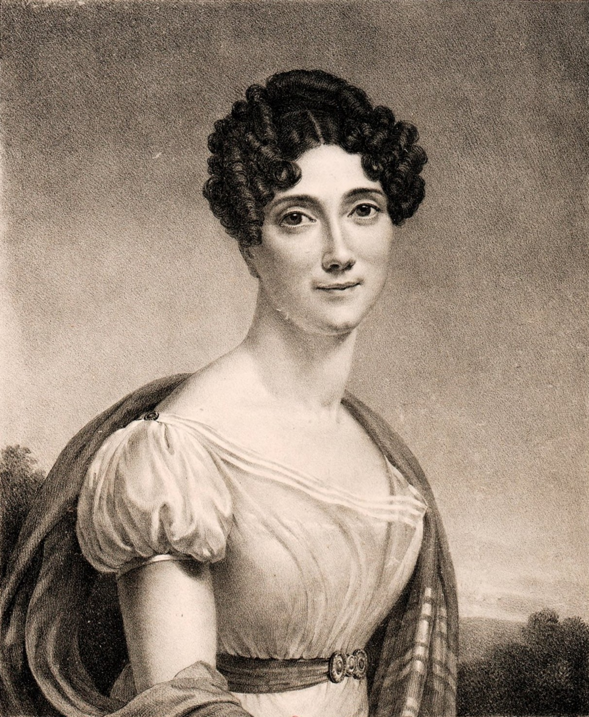 Emilia Bigottini